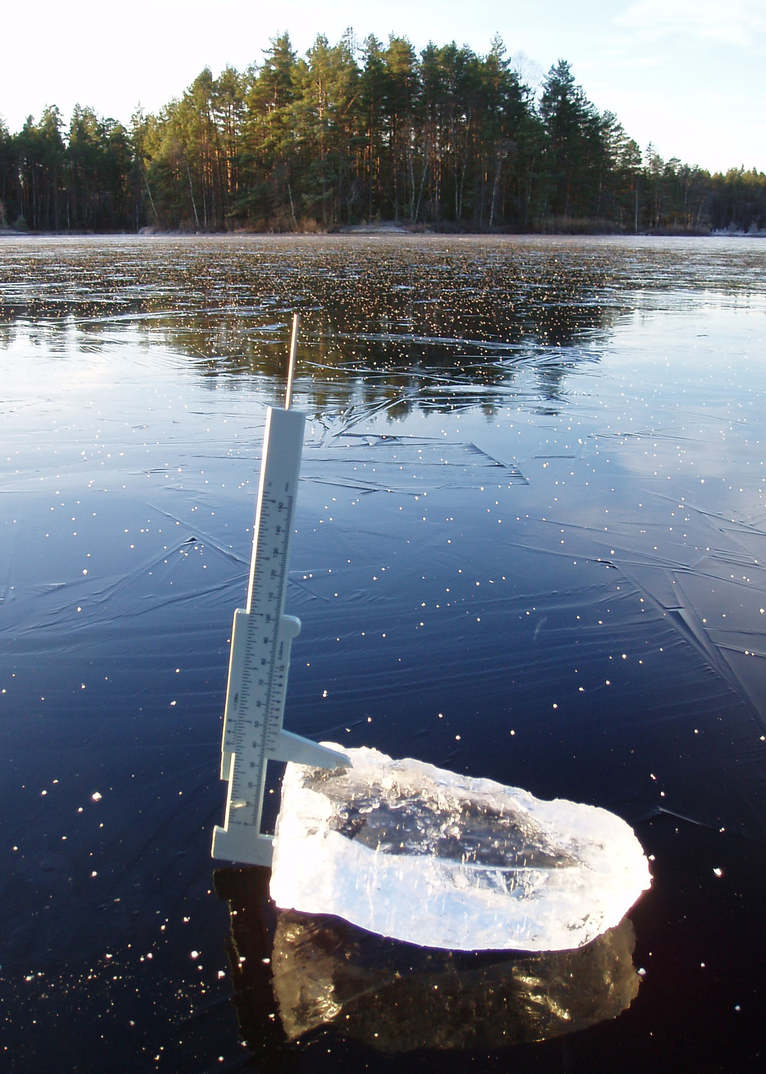 Black ice on a lake in Östergötland, Sweden